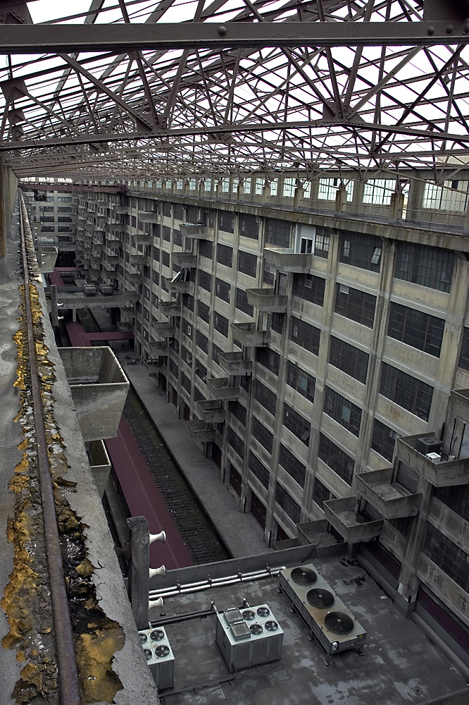 At the Brooklyn Army Terminal ... Looking down from the skycrane walkway